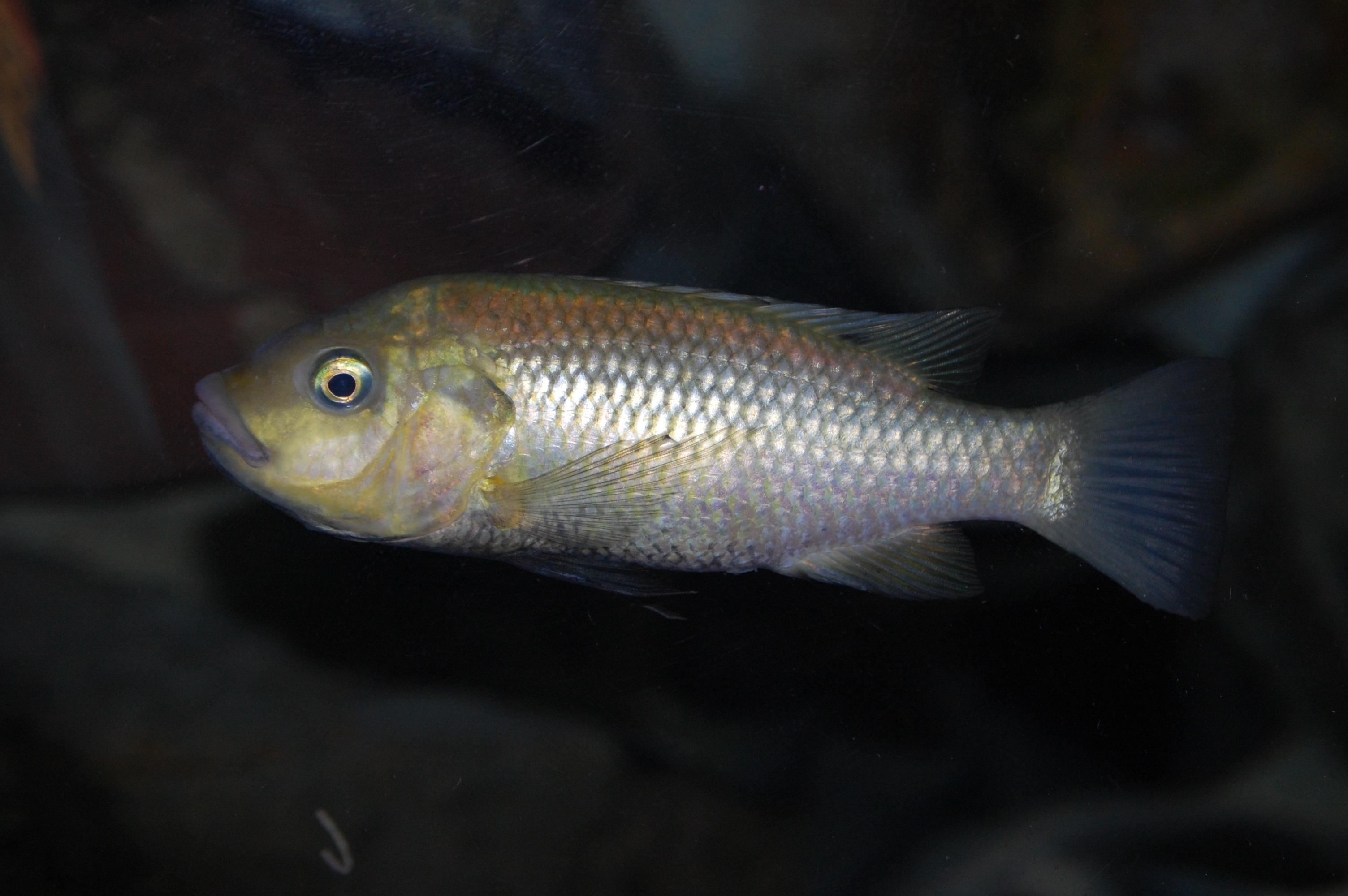 Sarotherodon linnellii, a Barombi Mbo cichlids at the London Zoo